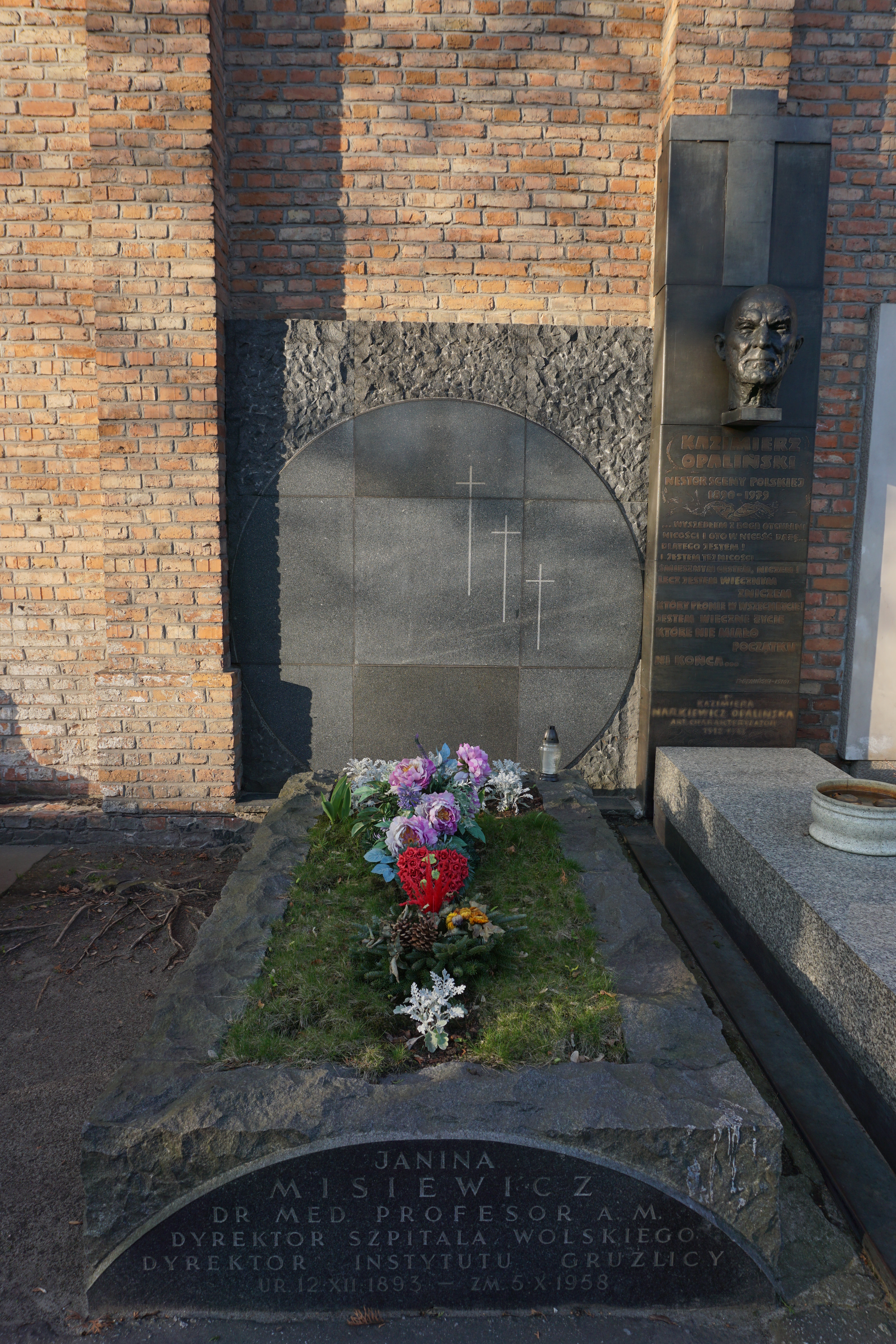 The grave of Janina Misiewicz at the Powązki Cemetery (Avenue of Deserved, grave 91)